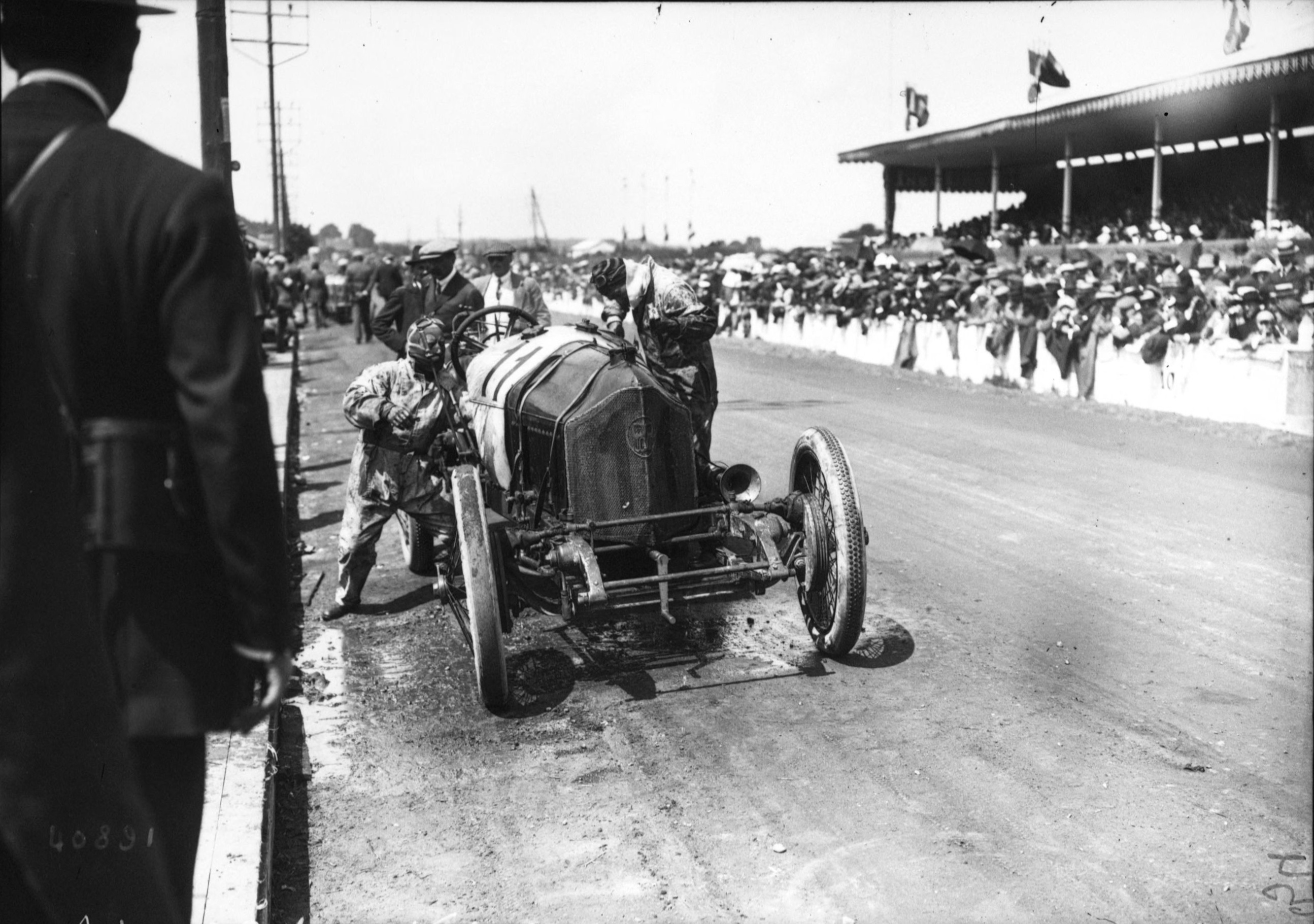 Tournier at the 1914 French Grand Prix